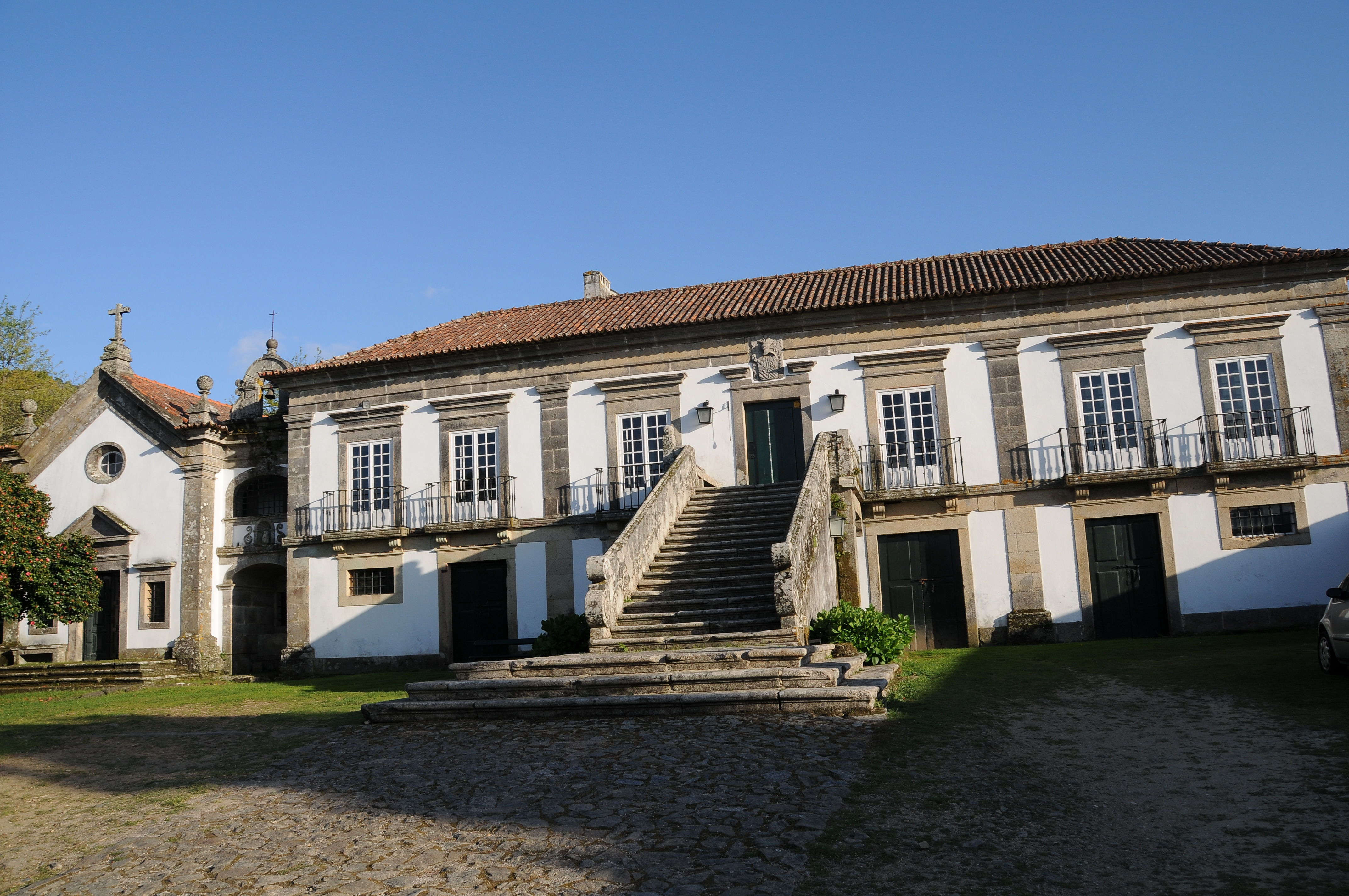 Casa da Bouça in Santa Leocádia de Geraz do Lima, Viana do Castelo, Portugal.